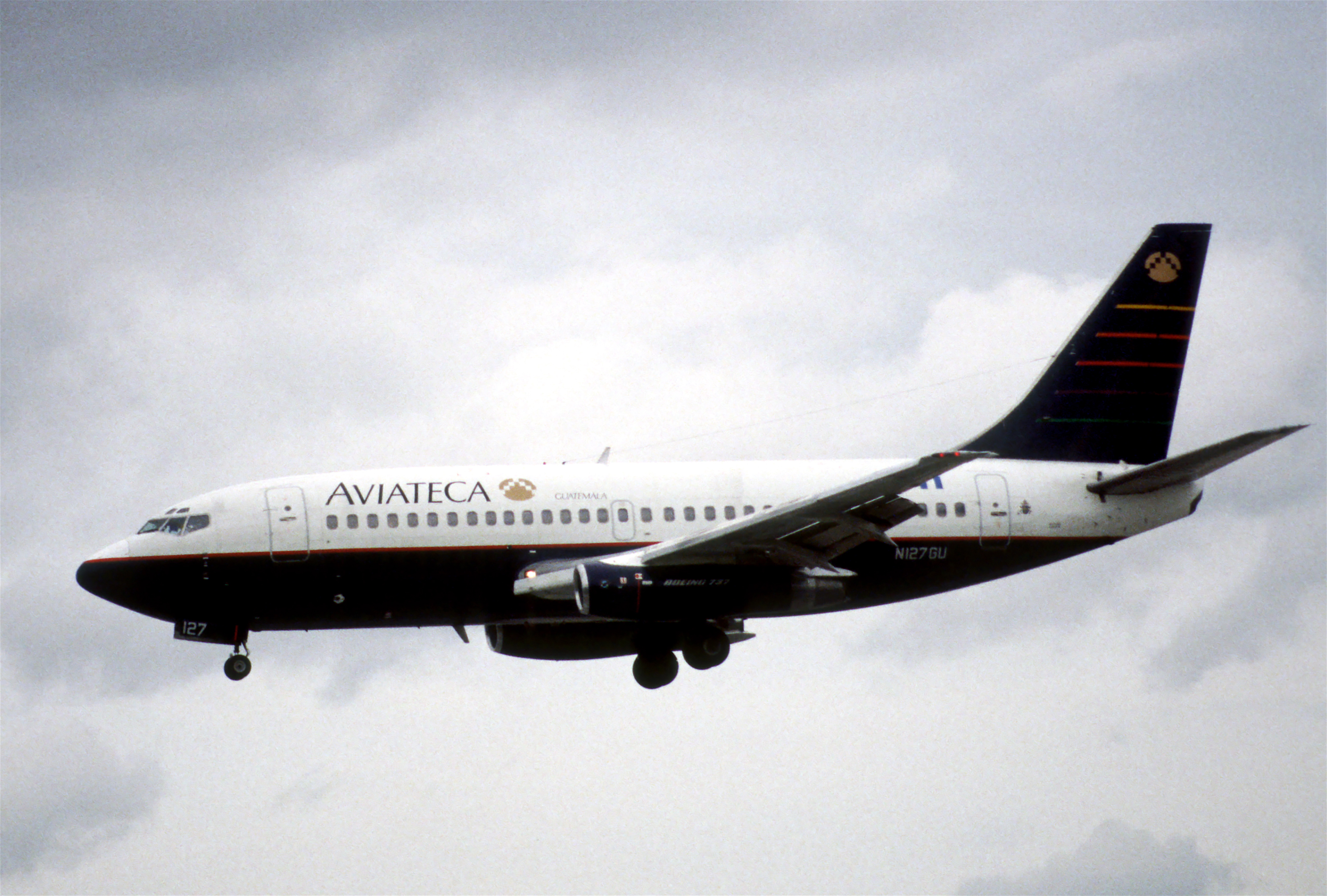 This Boeing 737-200 took its first flight on November 14, 1979... 30/11/1979 Nordair C-GNDM 02/01/1987 CP Air C-GNDM 26/04/1987 Canadian Airlines C-GNDM 01/06/1991 Cayman Airways VR-CYB lsd ILFC 14/09/1995 Aviateca N127GU 02/11/2004 Phoenix Aviation EX-047 lsd from AAR 01/05/2006 Kam Air YA-GAC stored 04/2010